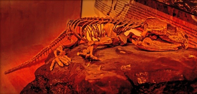 Reconstruction of the skeleton Priosphenodon avelasi made by the paleoartist Jorge González, and exhibited at the Carlos Ameghino Provincial Museum.